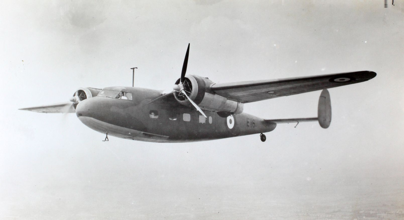 Image from the Charles Daniels Photo Collection album "British Aircraft." SOURCE INSTITUTION: San Diego Air and Space Museum Archive